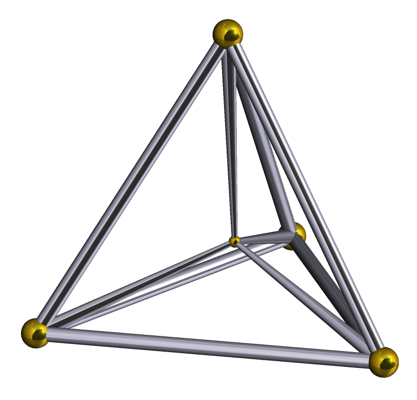 en:5-cell wireframe The copyright holder of this file, Robert Webb, allows anyone to use it for any purpose, provided that the copyright holder is properly attributed. Redistribution, derivative work, commercial use, and all other use is permitted. Attribution: Attribution must be given to Robert Webb's Stella software as the creator of this image along with a link to the website: A complimentary copy of any book or poster using images from the Software would also be appreciated where feasible. This work is free and may be used by anyone for any purpose. If you wish to use this content, you do not need to request permission as long as you follow any licensing requirements mentioned on this page.